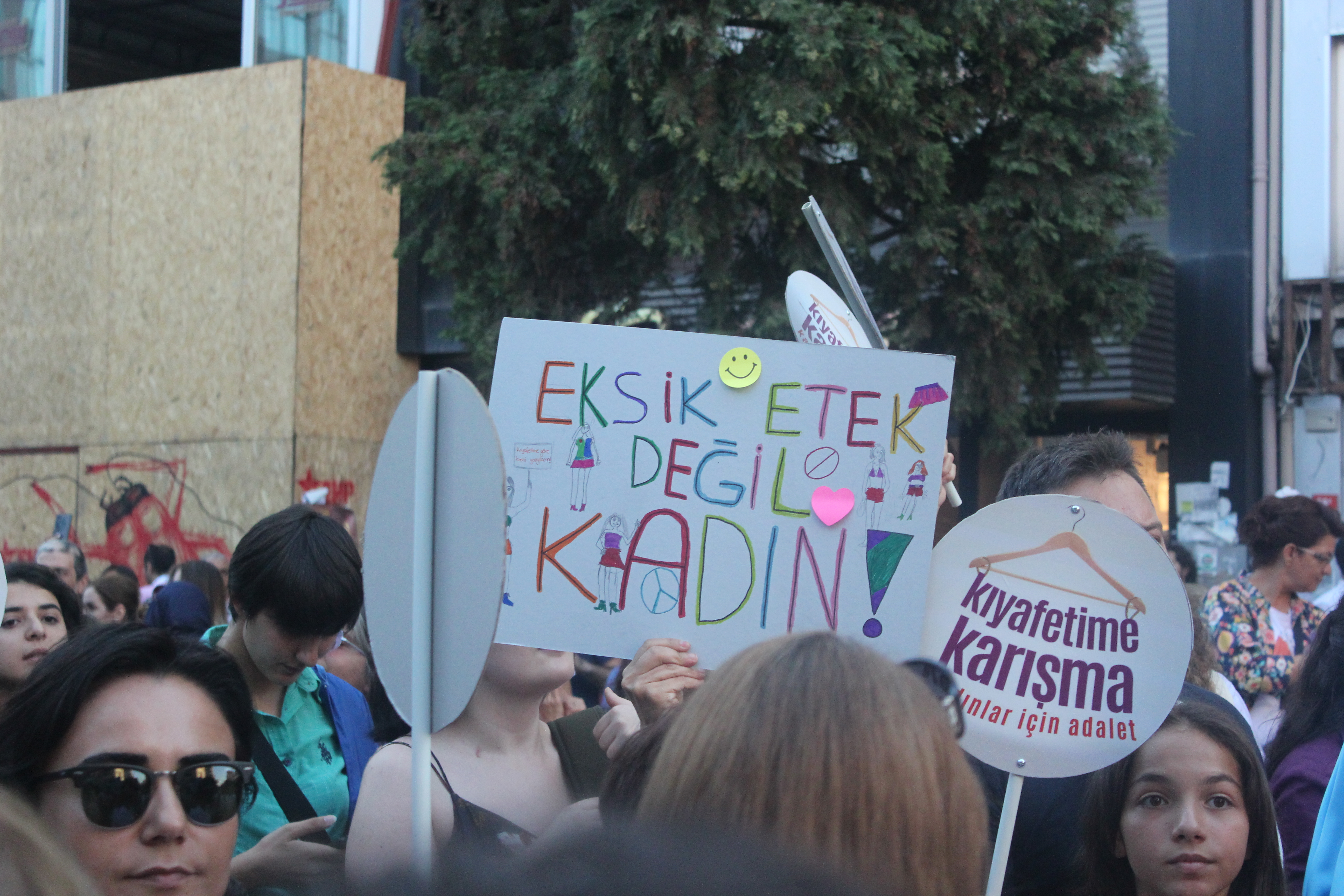 A poster from feminist protest in Turkey.